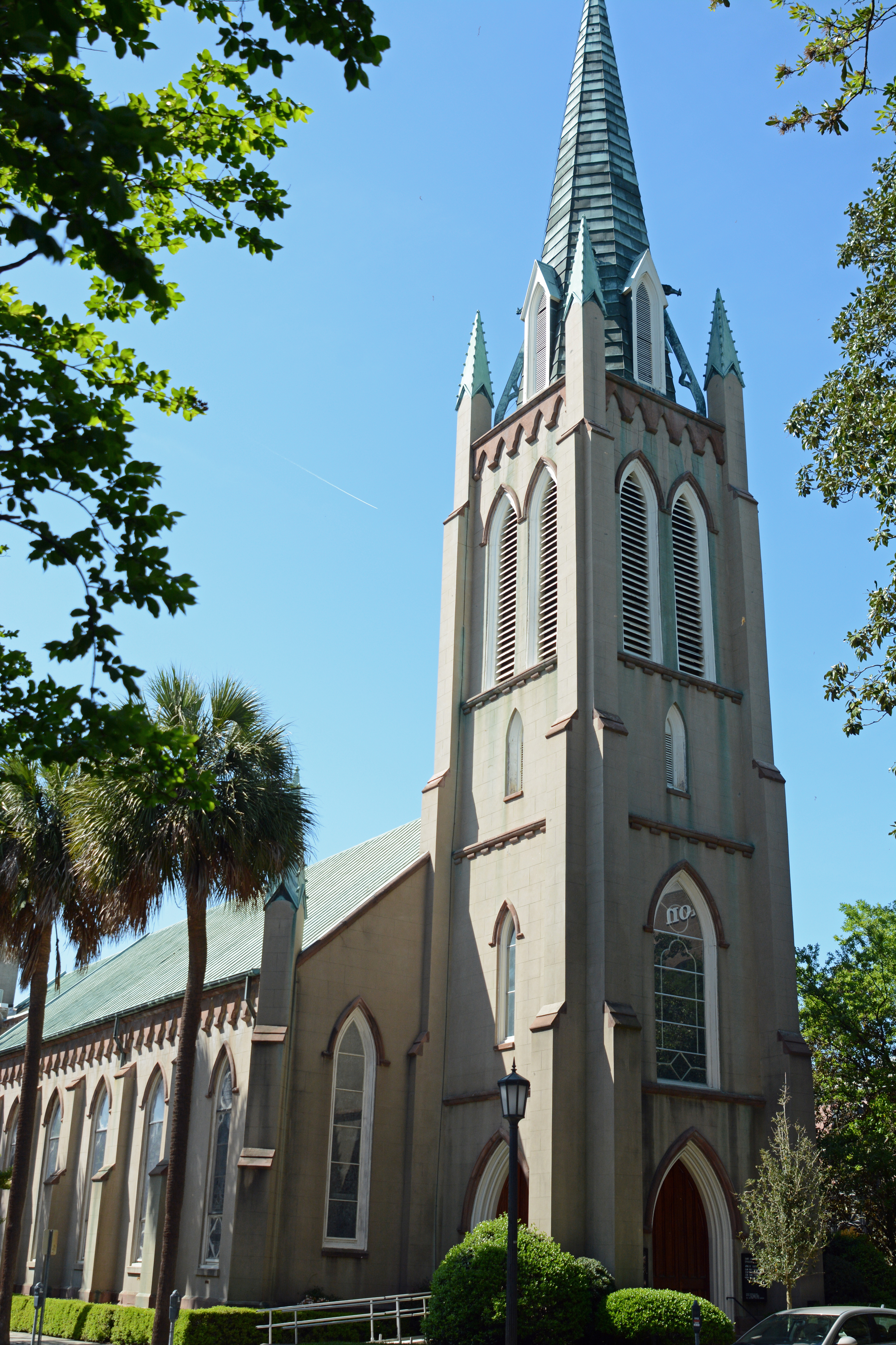 St. John's Episcopal Church, Savannah, GA, US, May be on the National Register of Historic Places.